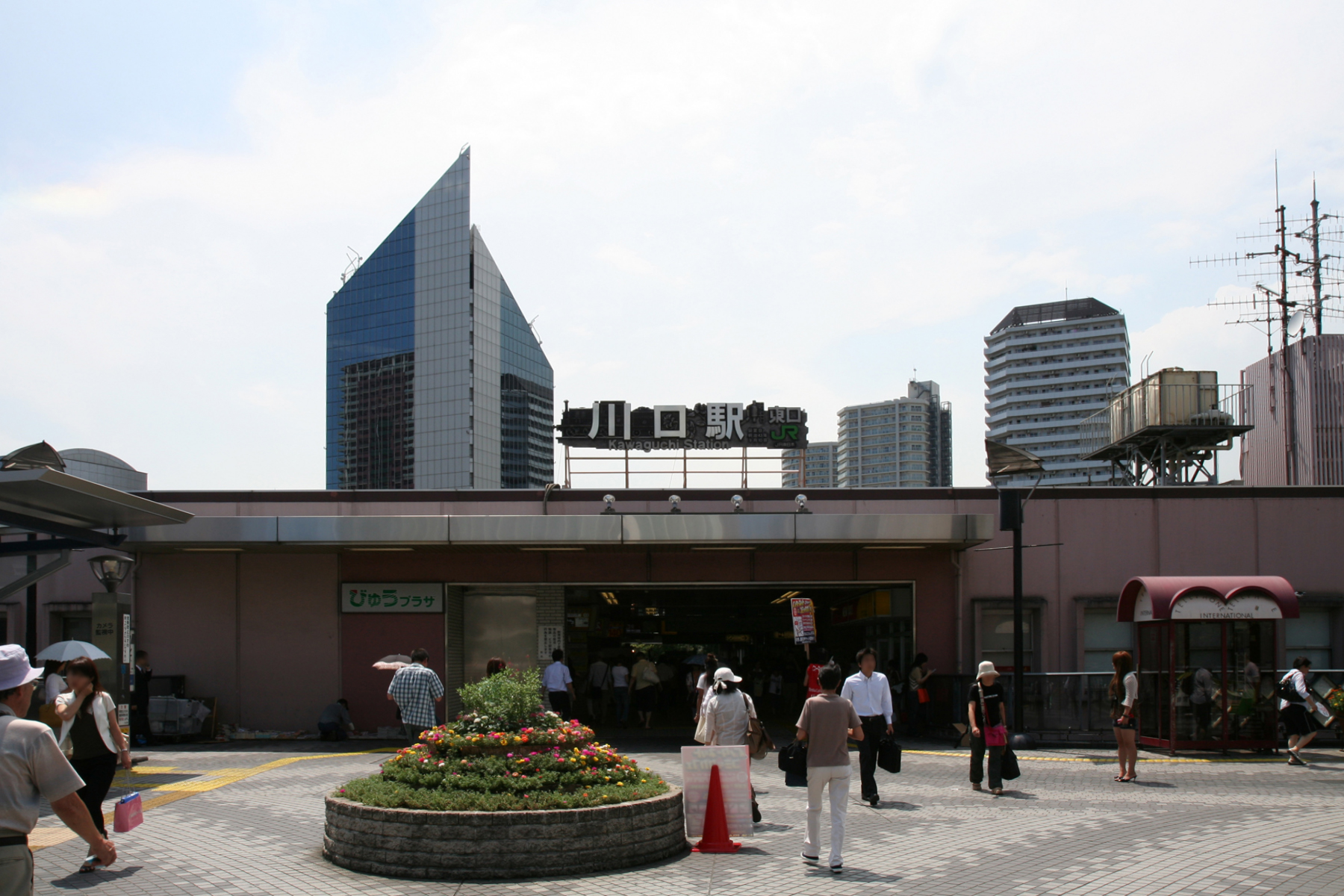 JRE Kawaguchi Station east exit in Kawaguchi, Saitama.